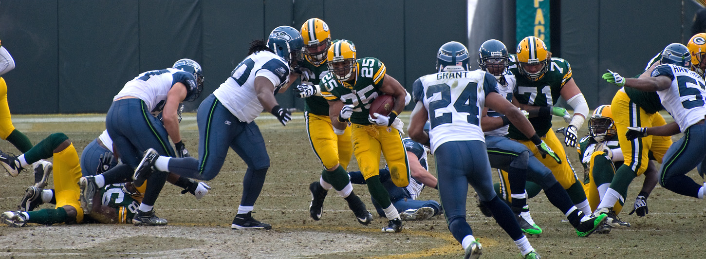 Seattle vs. Green Bay • December 27, 2009 at Lambeau Field in Green Bay, Wisconsin.